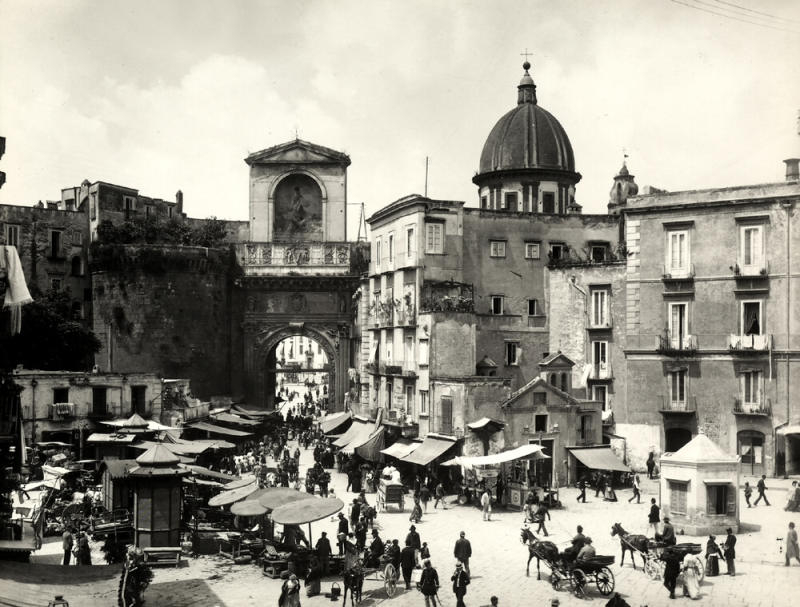 Giacomo Brogi (1822-1881), "Naples - Porta Capuana Gate". Catalogue # 5658.